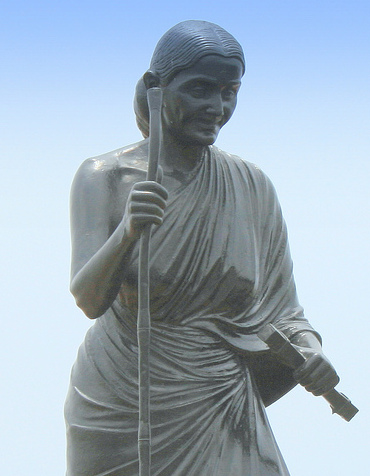 Avvaiyar statue on Marina Beach, Chennai, Tamil Nadu, India.